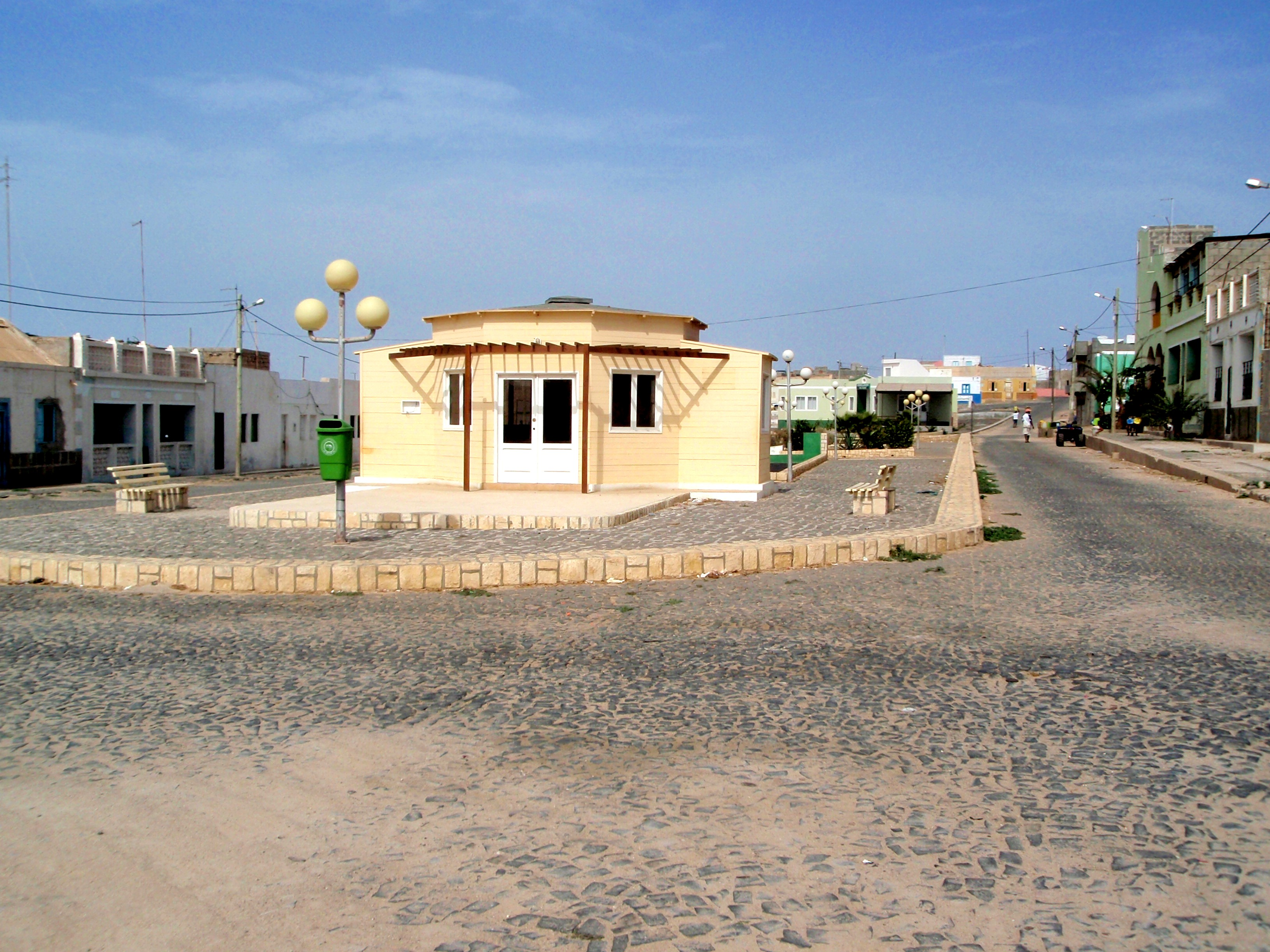 Rabil, Boa Vista, Cape Verde Islands